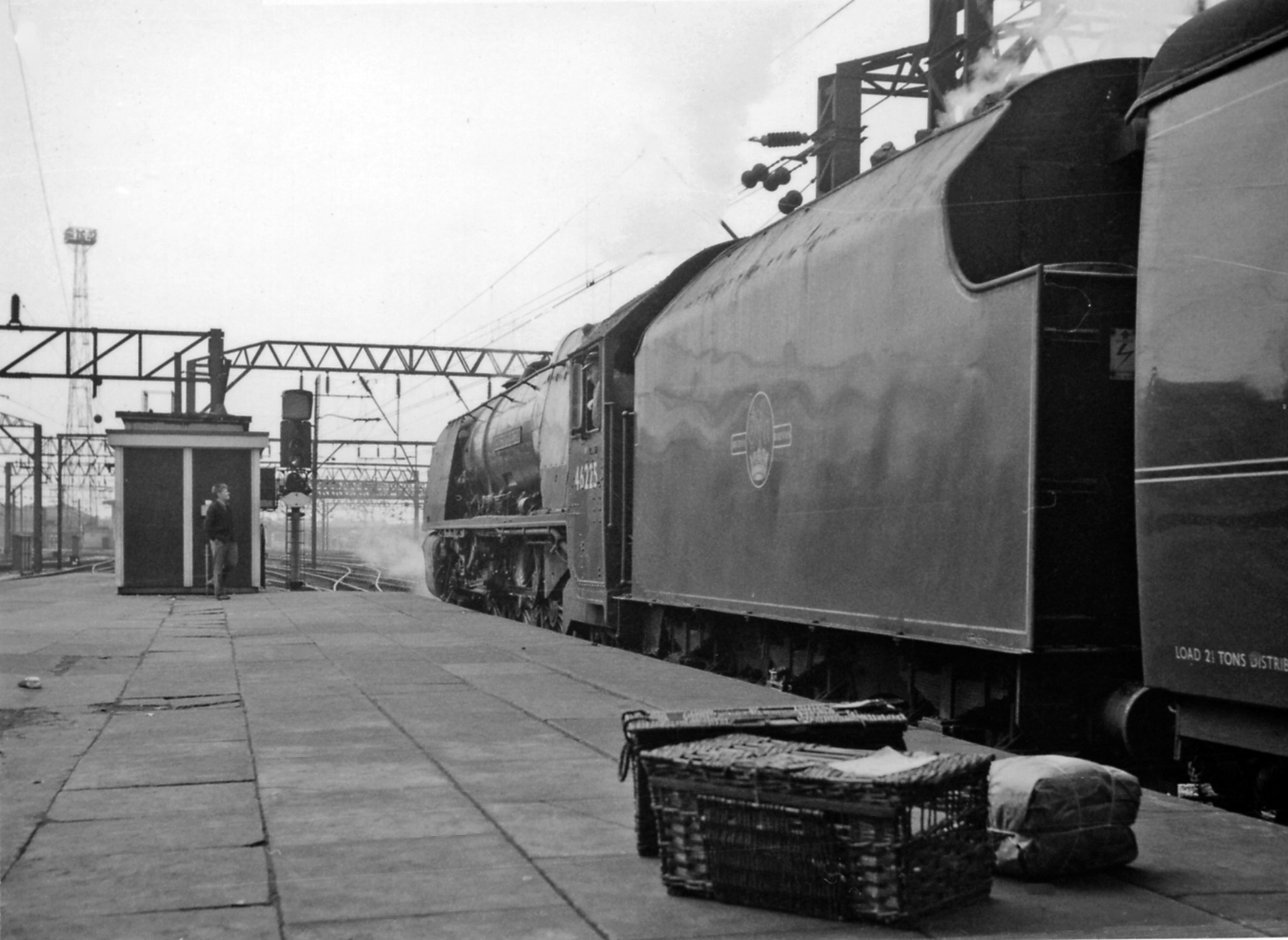 A 'Duchess (or 'Coronation') Pacific waits to leave Crewe for Perth. View NW, towards the North, West Coast Main Line. Sir William Stanier's 'Coronation' 4-6-2 No. 46225 'Duchess of Gloucester' - and crew - are in for an exceptionally long and gruelling 291 miles, over Shap and Beattock Summits. The electrication seen in 1961 related only to the route between Crewe and Manchester so far.